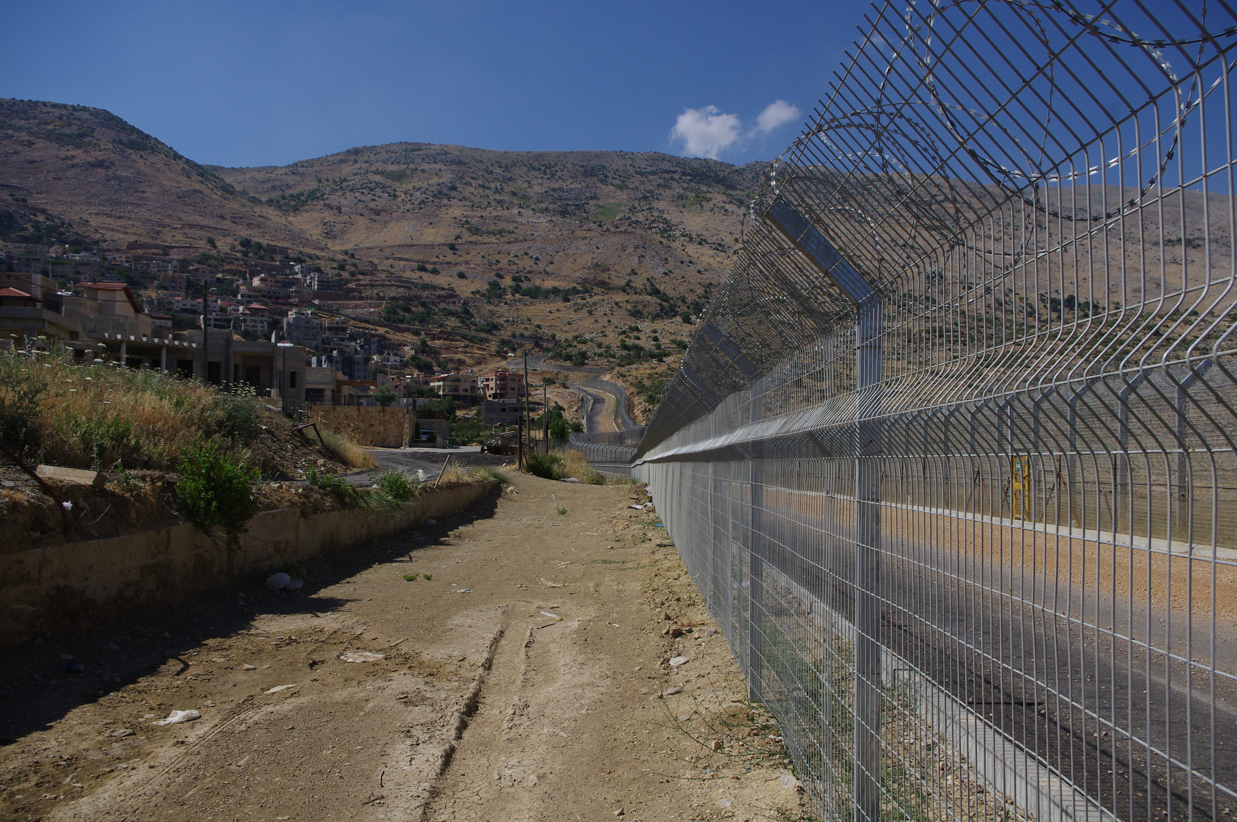 The town of Majdal Shams to the left of the border between Israel and Syria